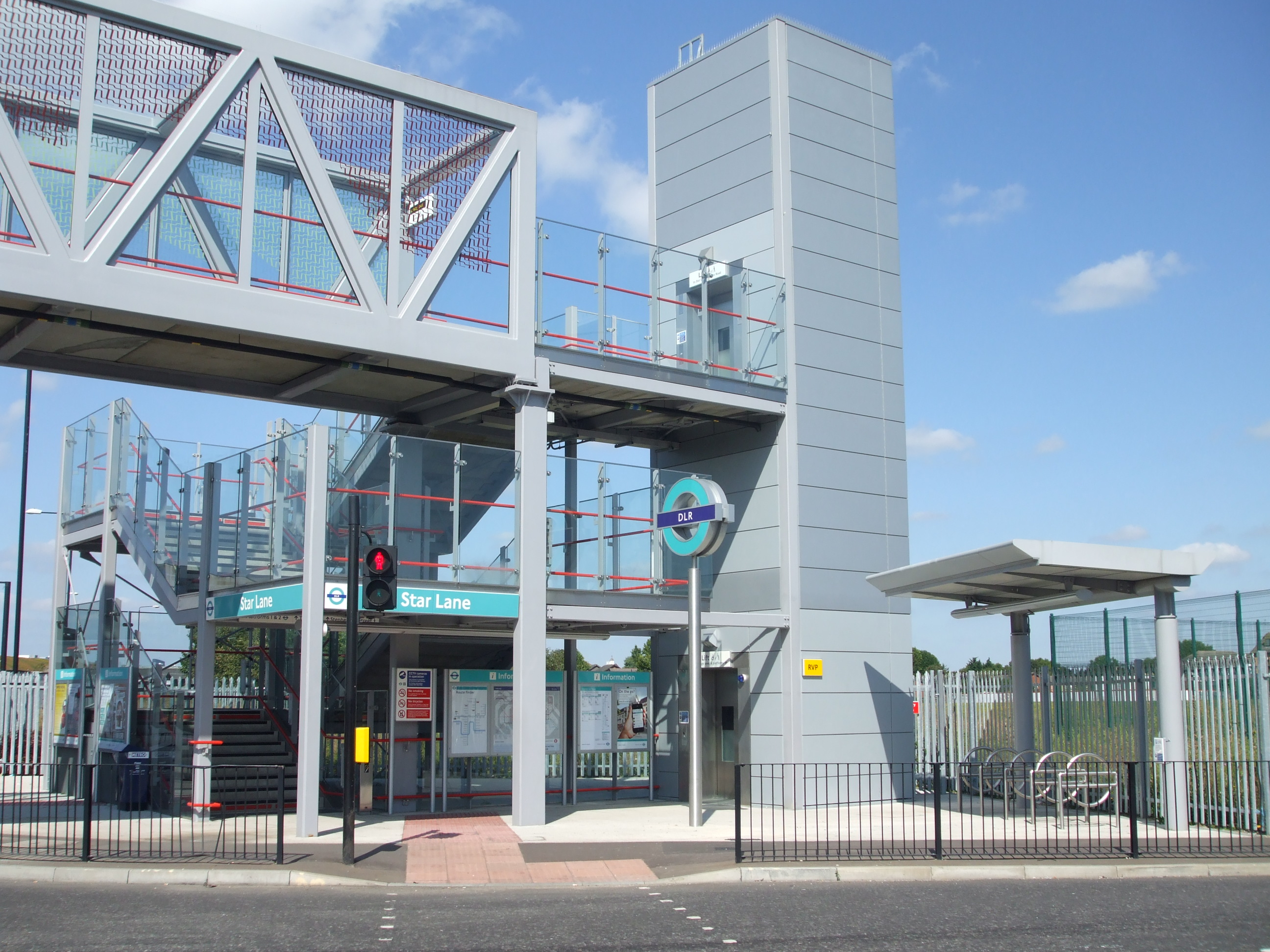 Star Lane DLR station eastern entrance, soon after opening.